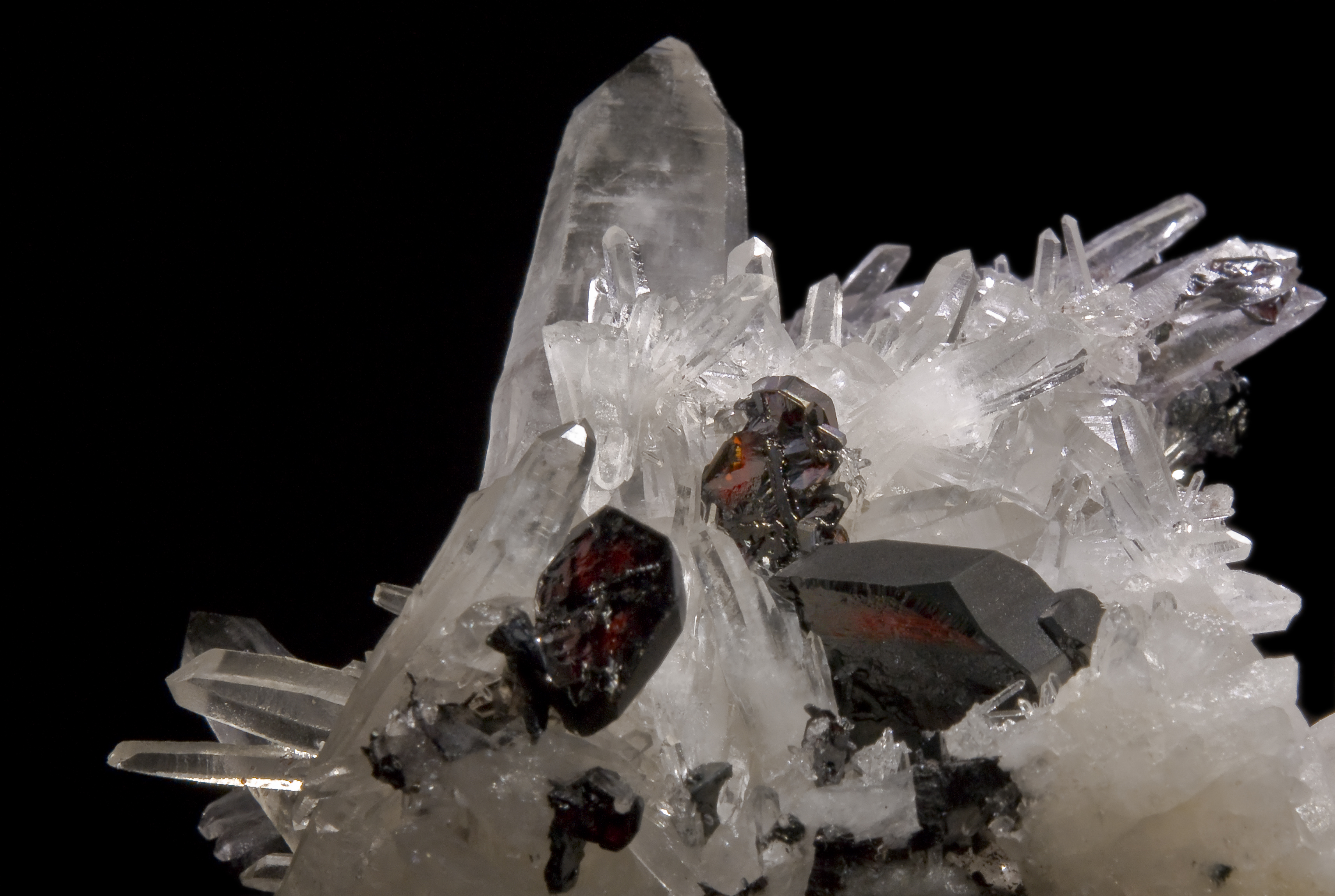 Hübnerite with quartz - Mundo Nuevo Mine, Mundo Nuevo, Pasto Bueno District, Pallasca Province, Ancash Department, Peru (8x7 XX2cm)